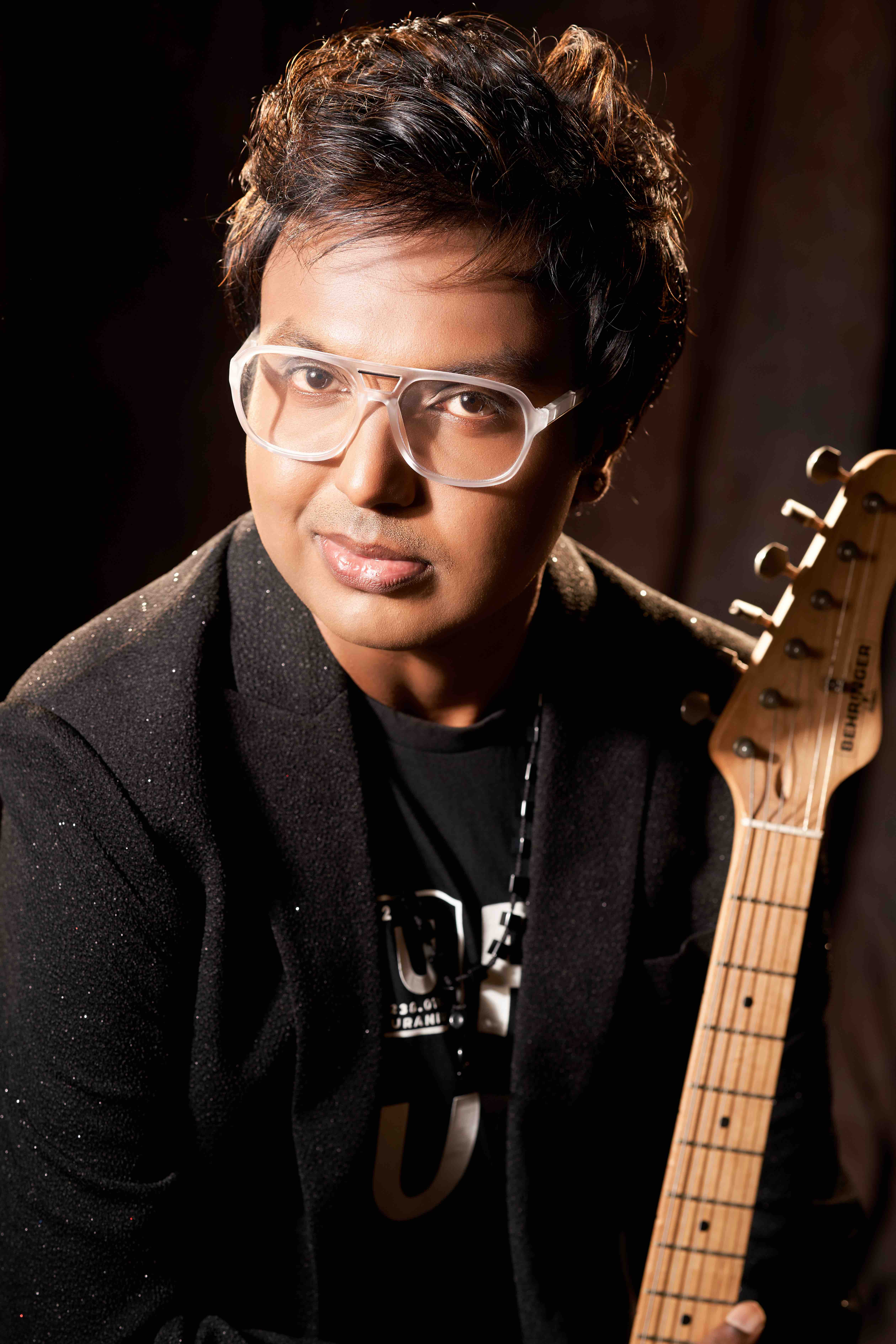 this is Imman's recent appearance and physique